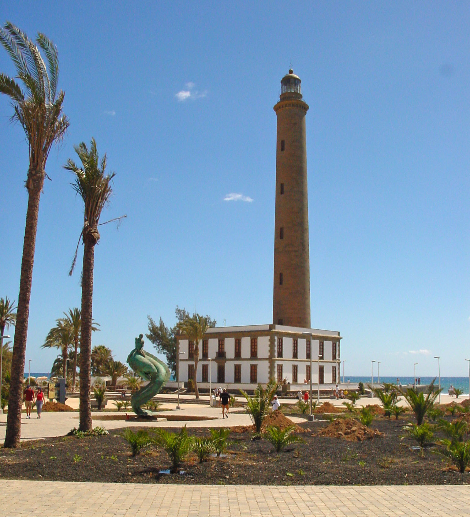 Lighthouse at Maspalomas, Gran Canaria, looking in direction south-east. - Google Maps - Google Earth